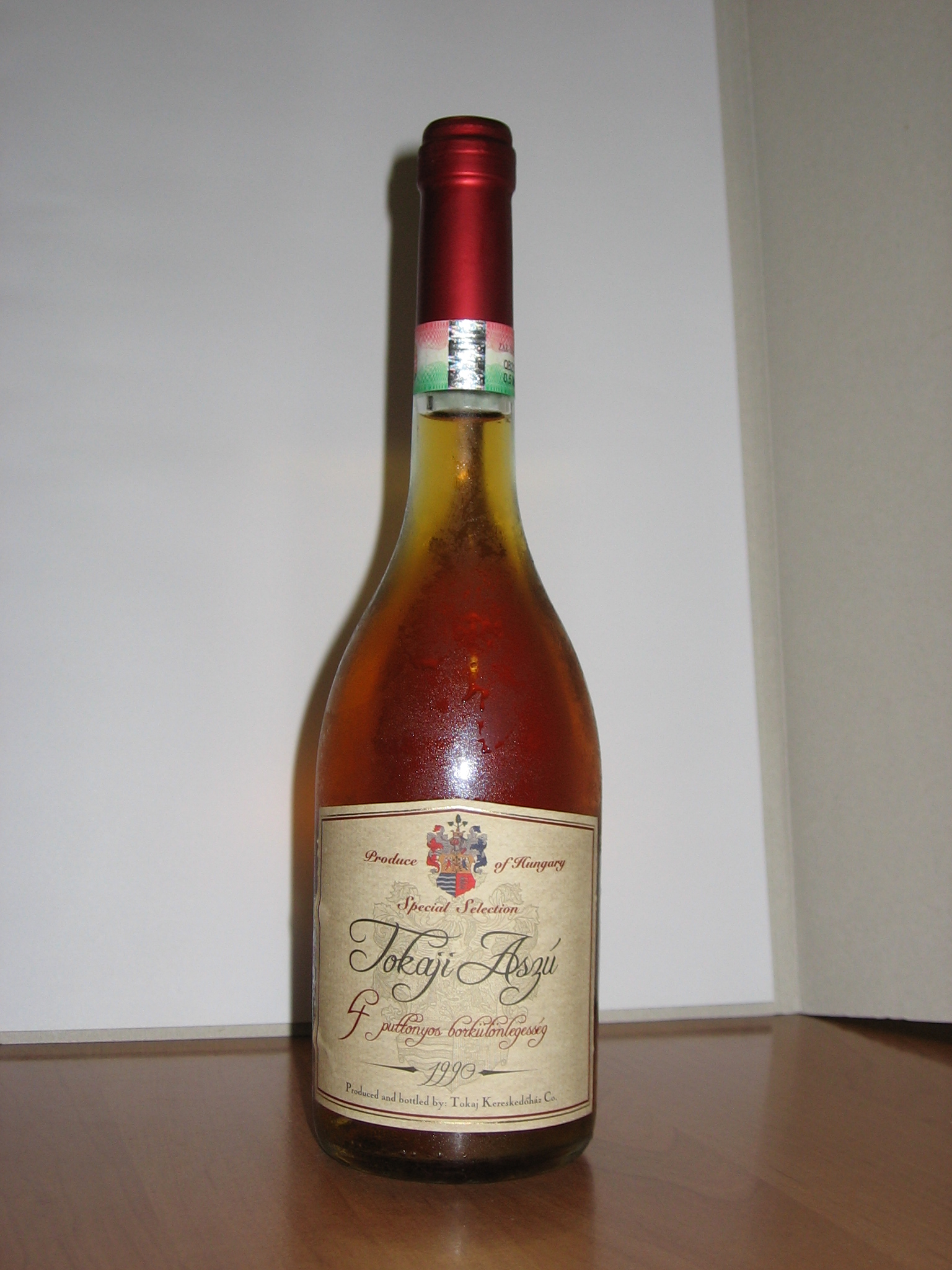 A bottle of Tokaji Aszú 4 Puttonyos, vintage 1990, Tokaj Kereskedőház Zrt., in a 500 ml bottle of the style that is typical for Tokaji wine. The capsule label with the colours of the Hungarian flag is also characteristic Butelka 4-puttoniowego tokaju aszú special selection kupiona w Tokaju w 2007, ze zbioru 1990, produkcji Tokaj Kereskedőház Zrt. Charakterystyczna banderola w węgierskich barwach narodowych